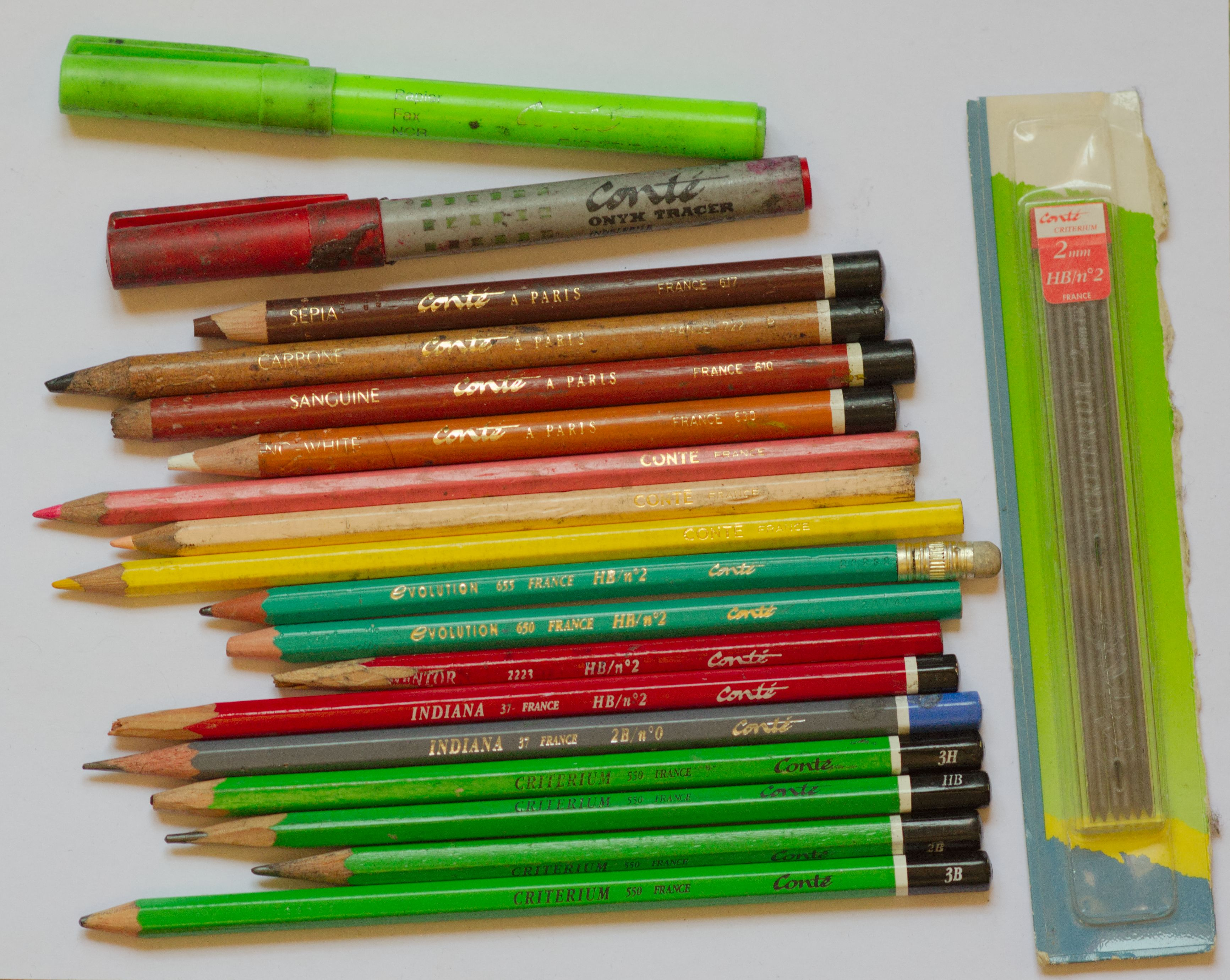 Miscallenous conté pencils and pen Conté. From the bottom to the top graphite pencil (from 3B to 3H), color pencil, drawing pencil, red "onyx" tracer and green fluo tracers. At the right Criterium 2mm mines. Criterium and Conté is a mark now owned by Bic. Conté is no more used on those arts tools, "Conté à Paris" that was sold to ColArt International in 2004, is used instead. ColArt Intl also own Lefranc & Bourgeois, Winsor & Newton, Reeves and Liquitex since 2000).